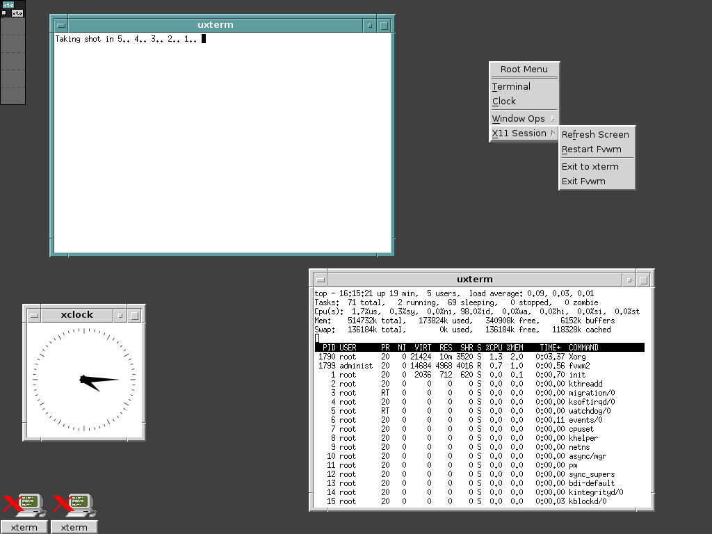 FVWM emulating Motif and MWM (Motif Window Manager), using the "FVWM-min" package. Running on Debian GNU/Linux.